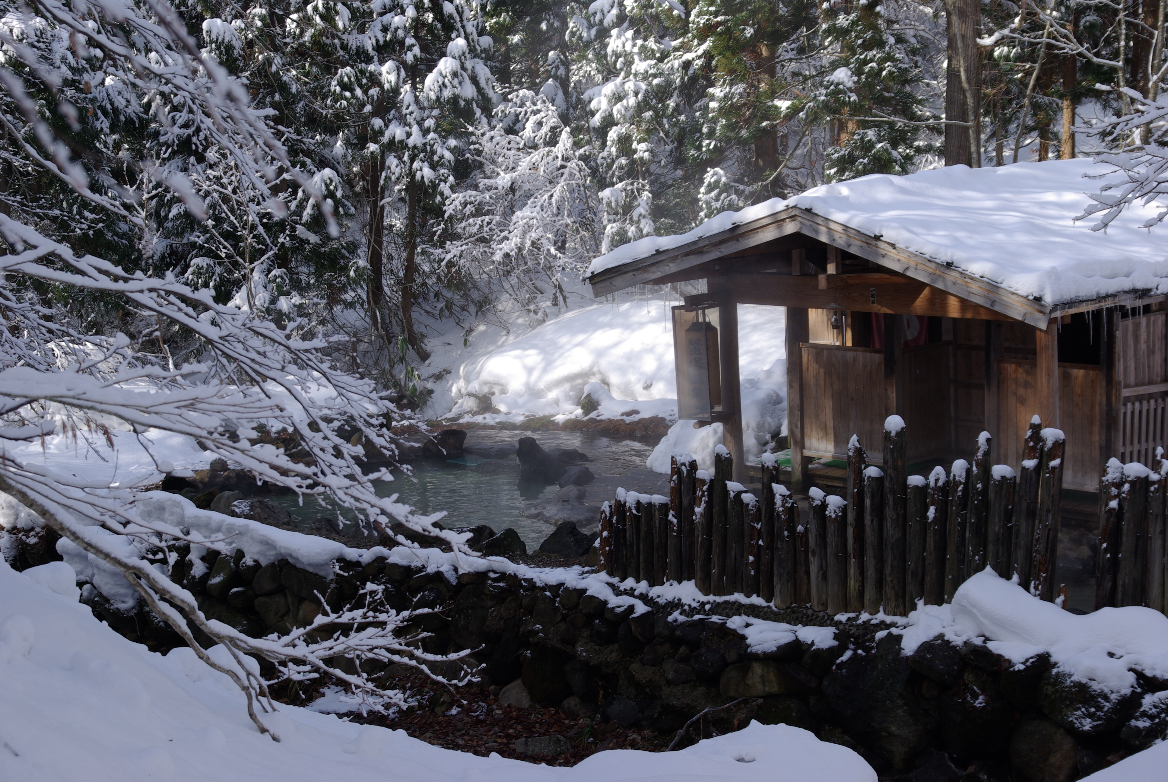 Ganiba Onsen in Semboku, Akita, Japan.